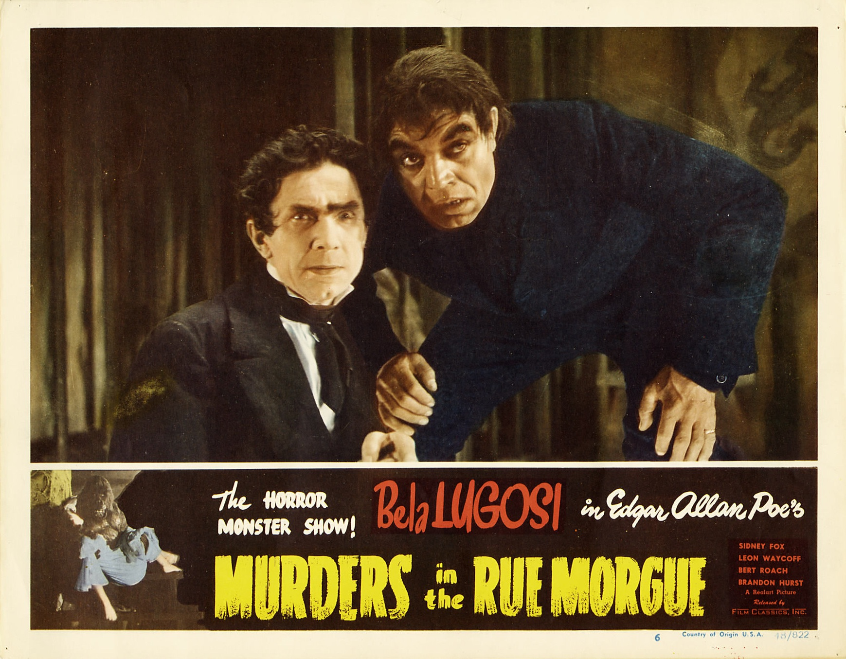 Colored lobby card for the 1932 film Murders in the Rue Morgue, featuring Bela Lugosi. This image is assumed to be in the public domain, as no copyright notice is in evidence.